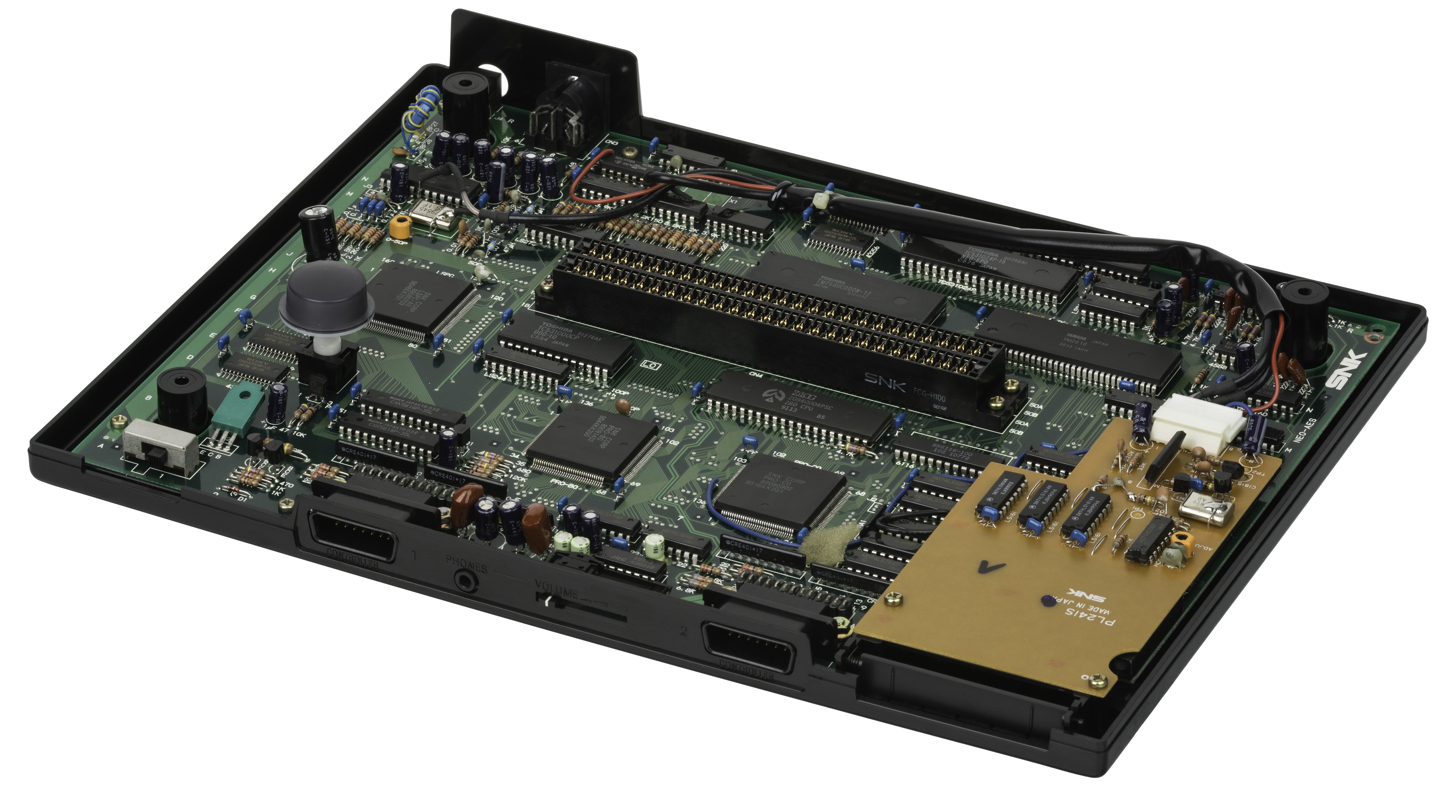 The motherboard for the Neo Geo AES (Advanced Entertainment System), a video game console released in the US in 1991. The Neo Geo AES was unique in that it was a niche system, marketed toward high-end consumers who wanted to play true arcade games in their home. The AES is merely a repackaged version of their Neo Geo MVS arcade system, where swappable games are stored on giant cartridges. The console was expensive, as were the games themselves, which could go for hundreds of dollars. The motherboard for the Neo Geo AES is powered by a Motorola 68000 running at 12 MHz, and also features a Zilog Z80 as a co-processor. Other chips include: SNK LSPC2-A2 SNK PRO-B0 SNK PRO-A0 SNK PRO-C0 Yamaha YM2610 Toshiba TC531024P-15 Toshiba TC531000CP